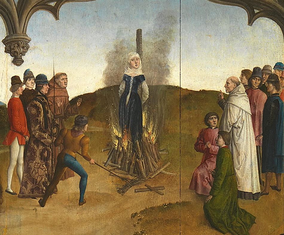 Saint Richardis—fragment of a painting by Dirk Bouts